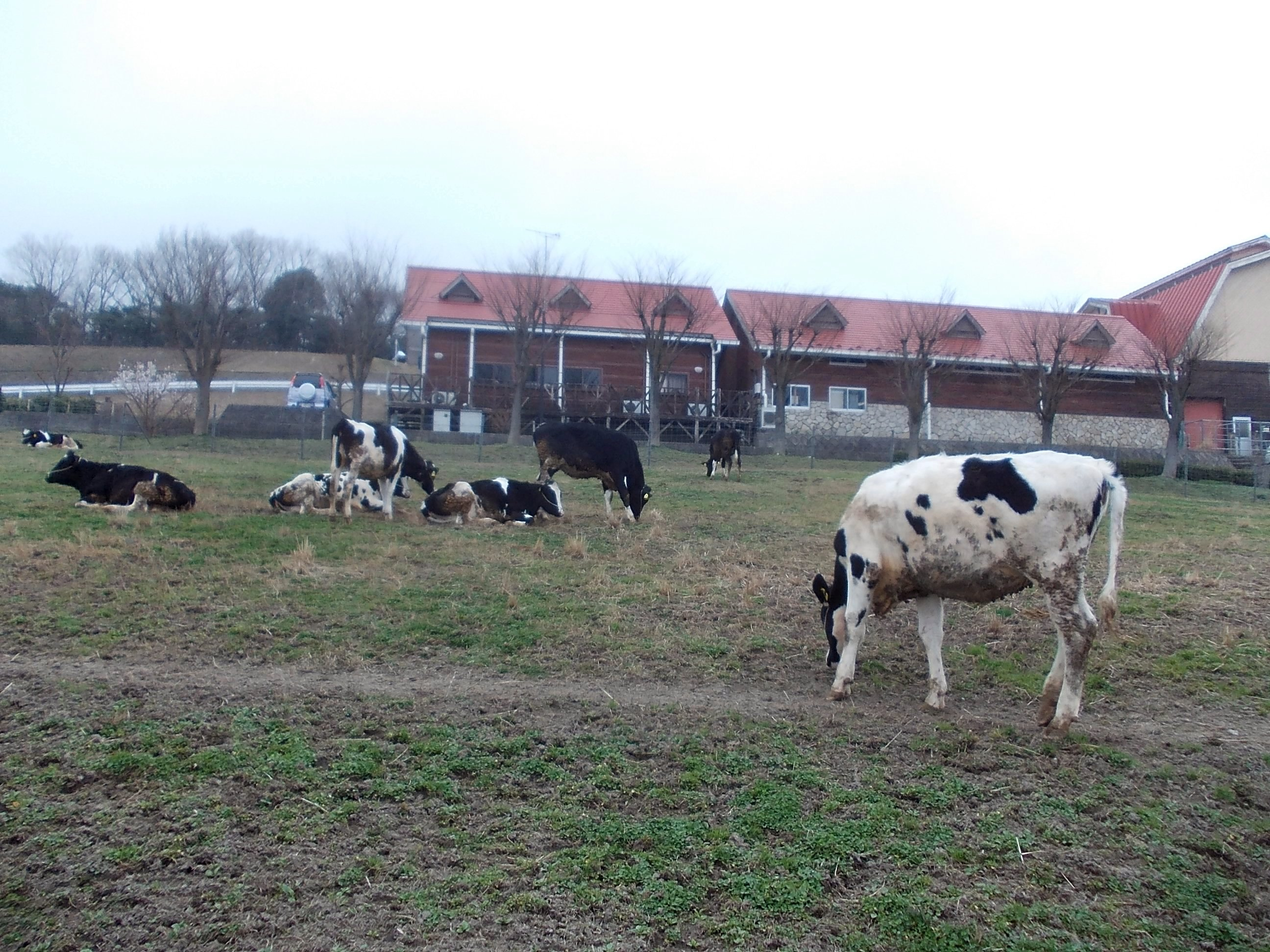 Momoland Aburayama farm, Minami-ku, Fukuoka, Japan